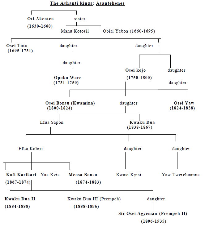 Genealogical tree of the Asantenes